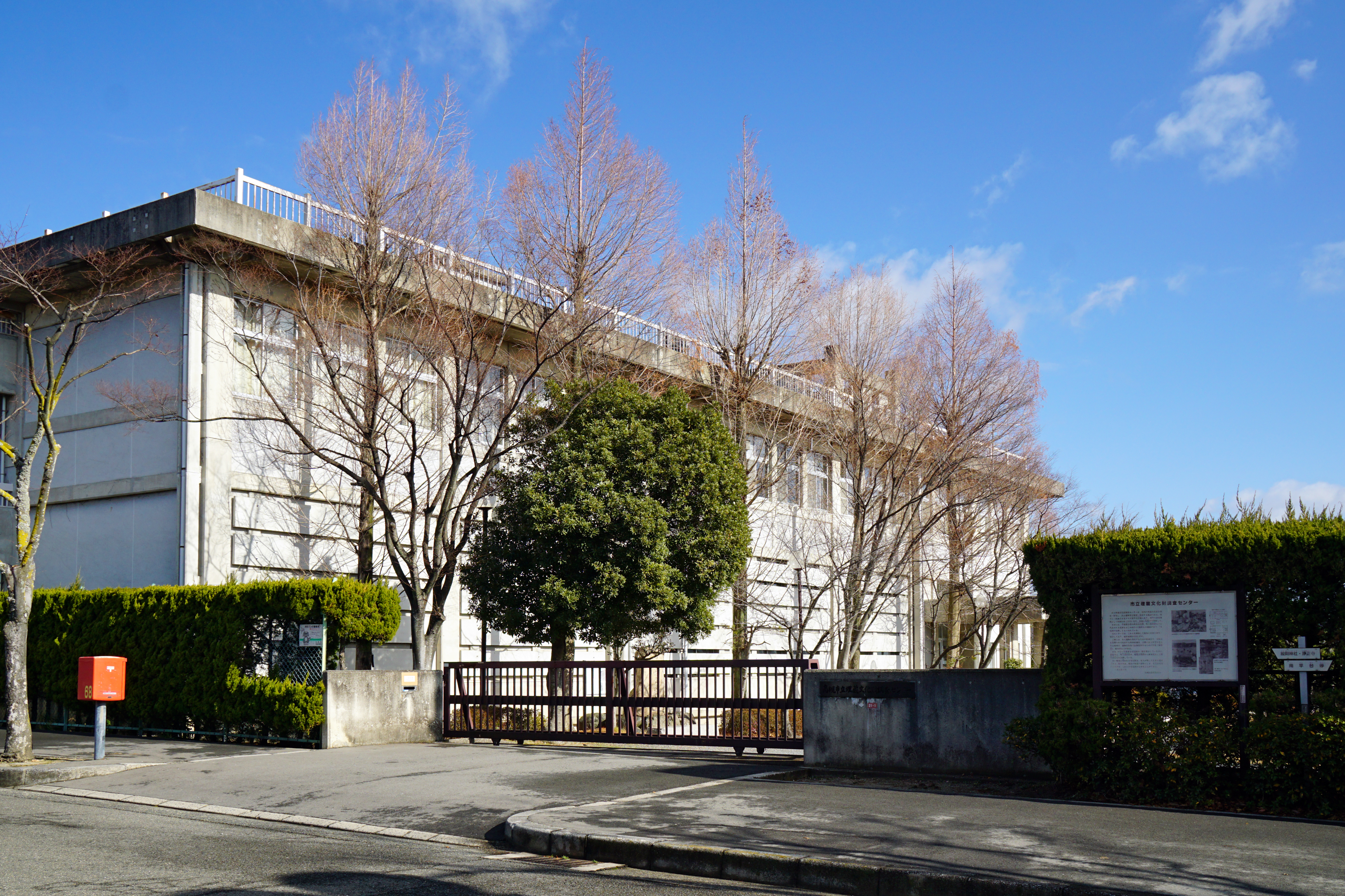 Archaeological Research Center of Takatsuki City in Nanpeidai, Takatsuki, Osaka prefecture, Japan.